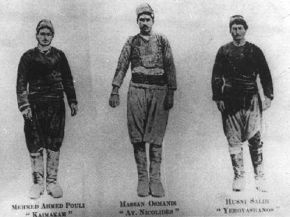 Hassan Poulia (Hasanbulli brothers)